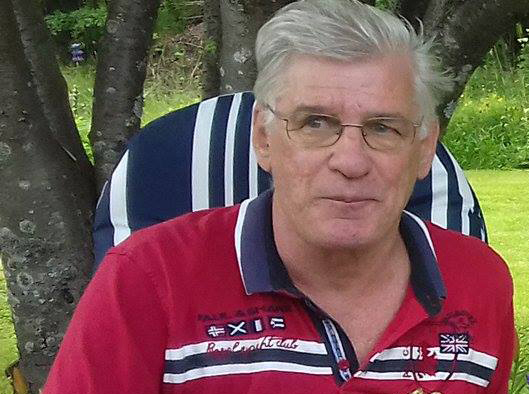 This is the Swedish author Bengt Kostenius